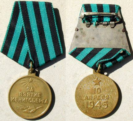 Soviet Medal for capturing Koenigsberg